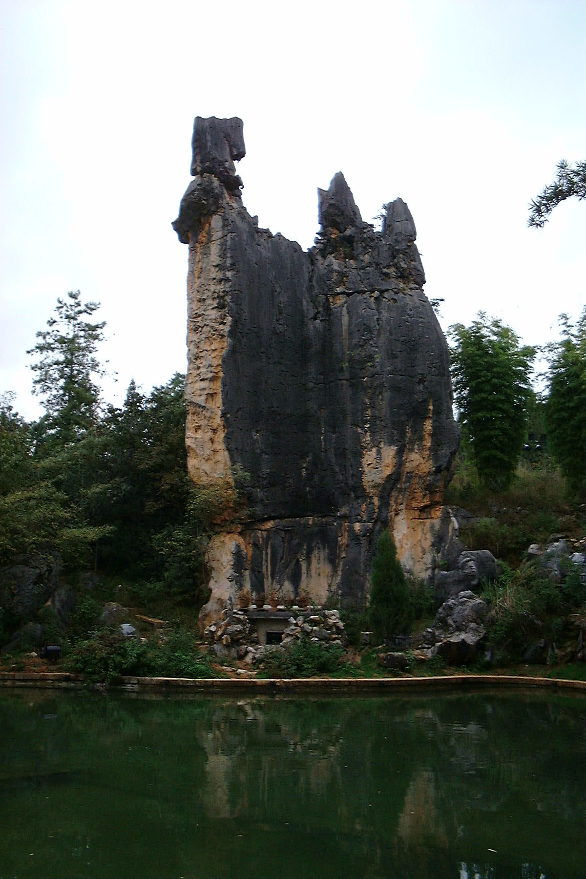 Ashima rock; Stone Forest, Shilin county, Yunnan province, China